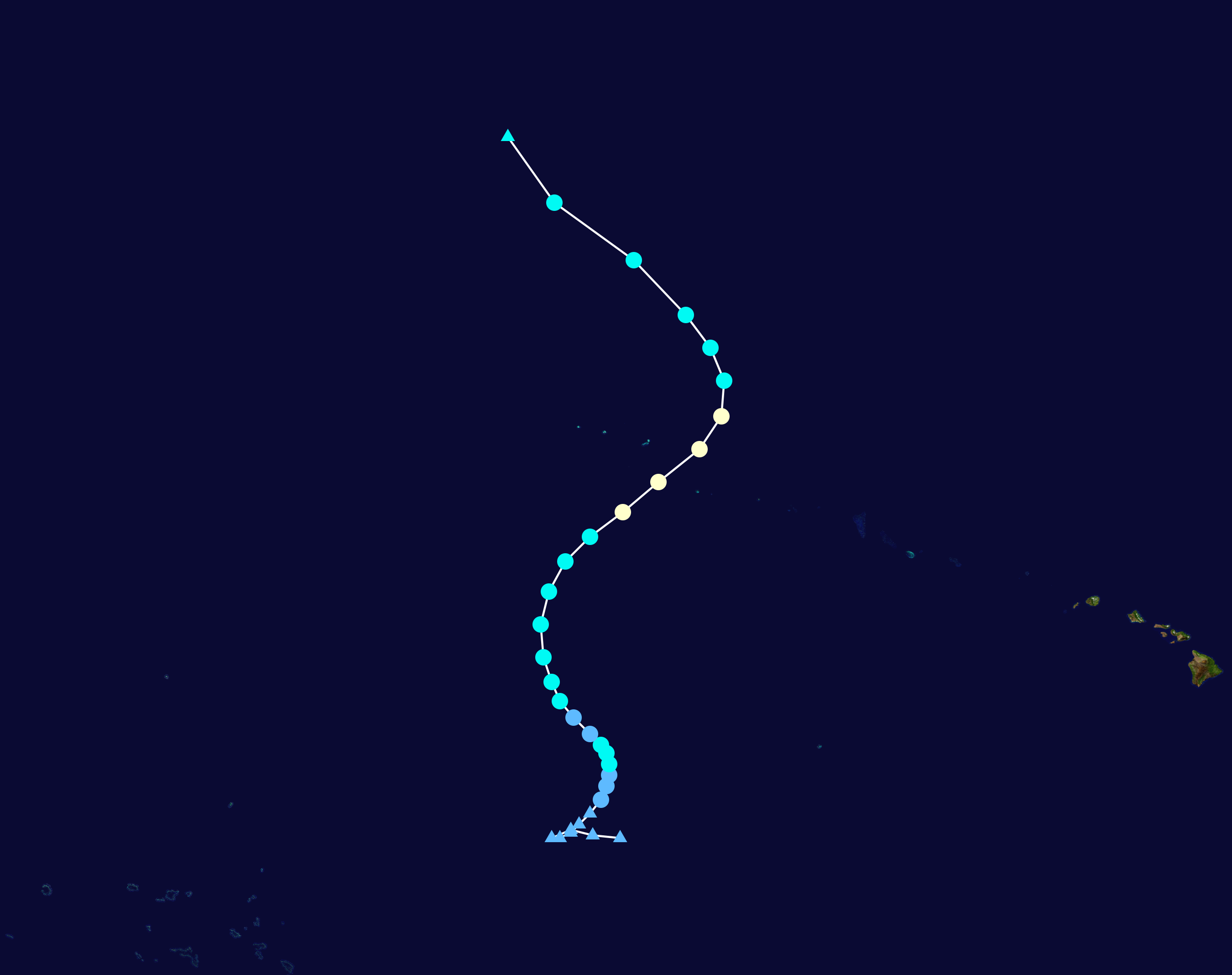 Track map of Hurricane Loke of the 2015 Pacific hurricane season. The points show the location of the storm at 6-hour intervals. The colour represents the storm's maximum sustained wind speeds as classified in the Saffir–Simpson scale (see below), and the shape of the data points represent the nature of the storm, according to the legend below. Saffir–Simpson scale Tropical depression≤38 mph≤62 km/h Category 3111–129 mph178–208 km/h Tropical storm39–73 mph63–118 km/h Category 4130–156 mph209–251 km/h Category 174–95 mph119–153 km/h Category 5≥157 mph≥252 km/h Category 296–110 mph154–177 km/h Unknown Storm type Tropical cyclone Subtropical cyclone Extratropical cyclone / Remnant low / Tropical disturbance / Monsoon depression